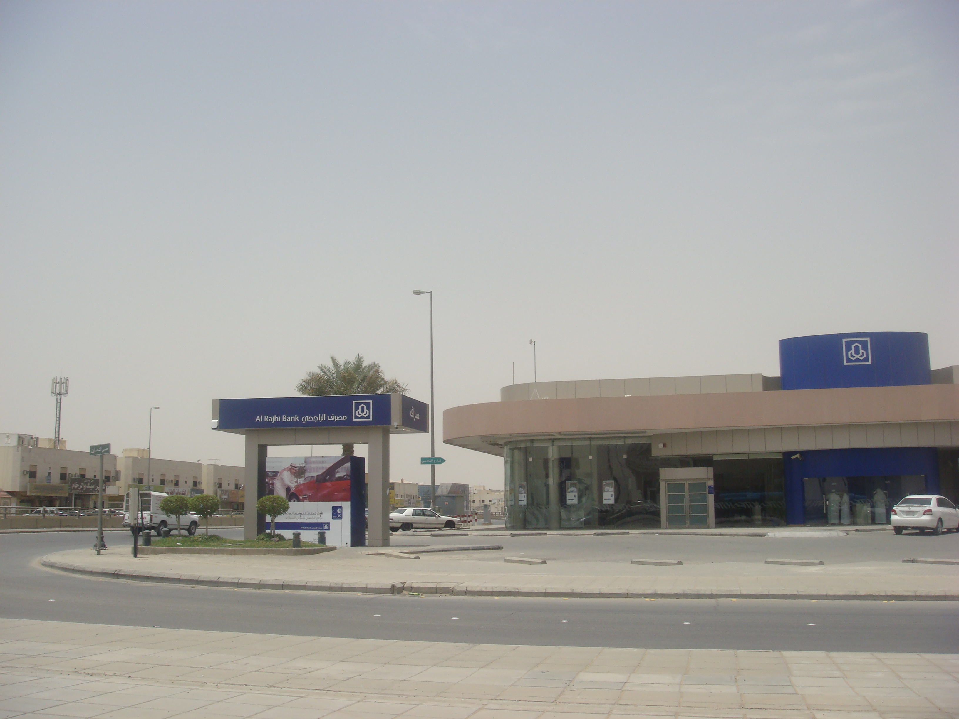 ATM AL RAJHI BANK Riyadh Saudi arabia